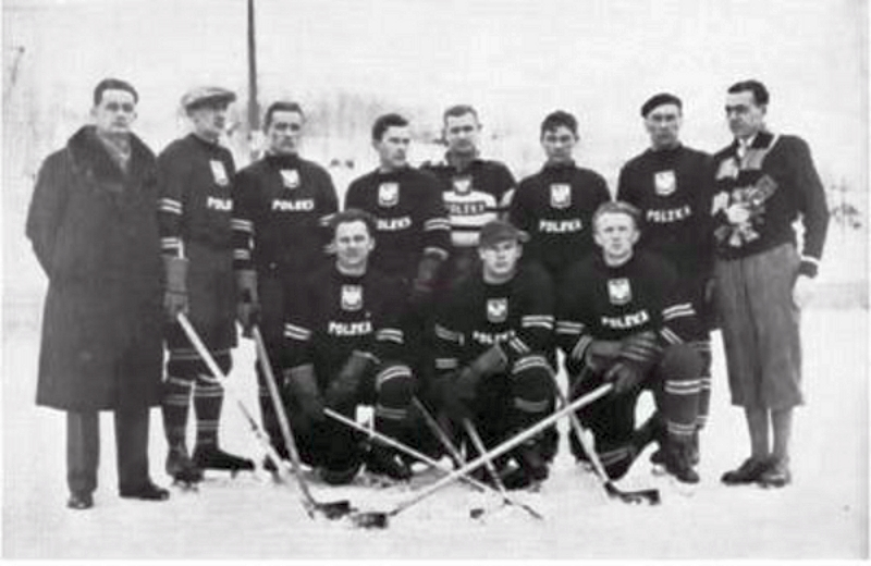 Polish national ice hockey team at the 1932 Winter Olympics